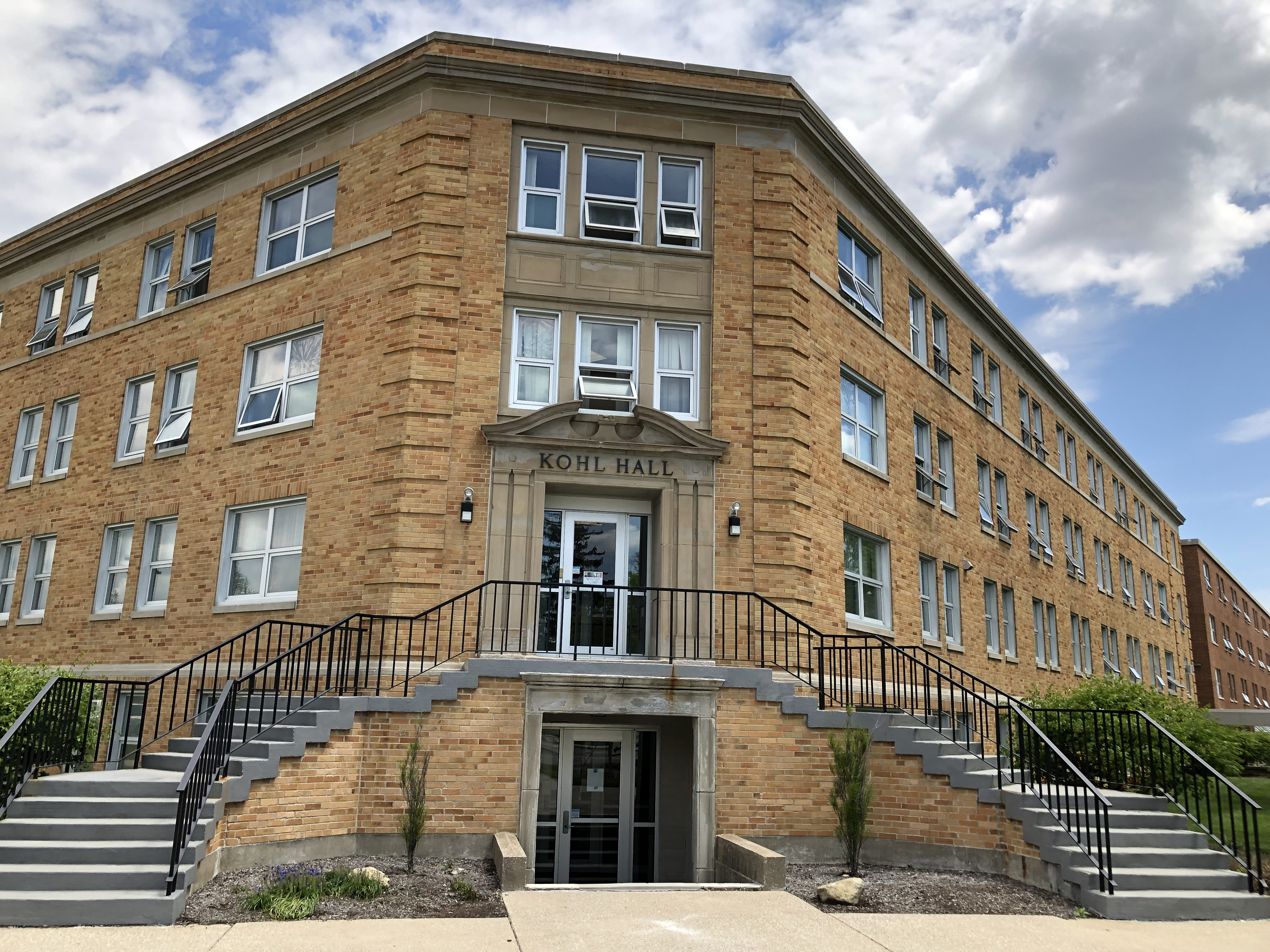 Kohl Hall at BGSU.